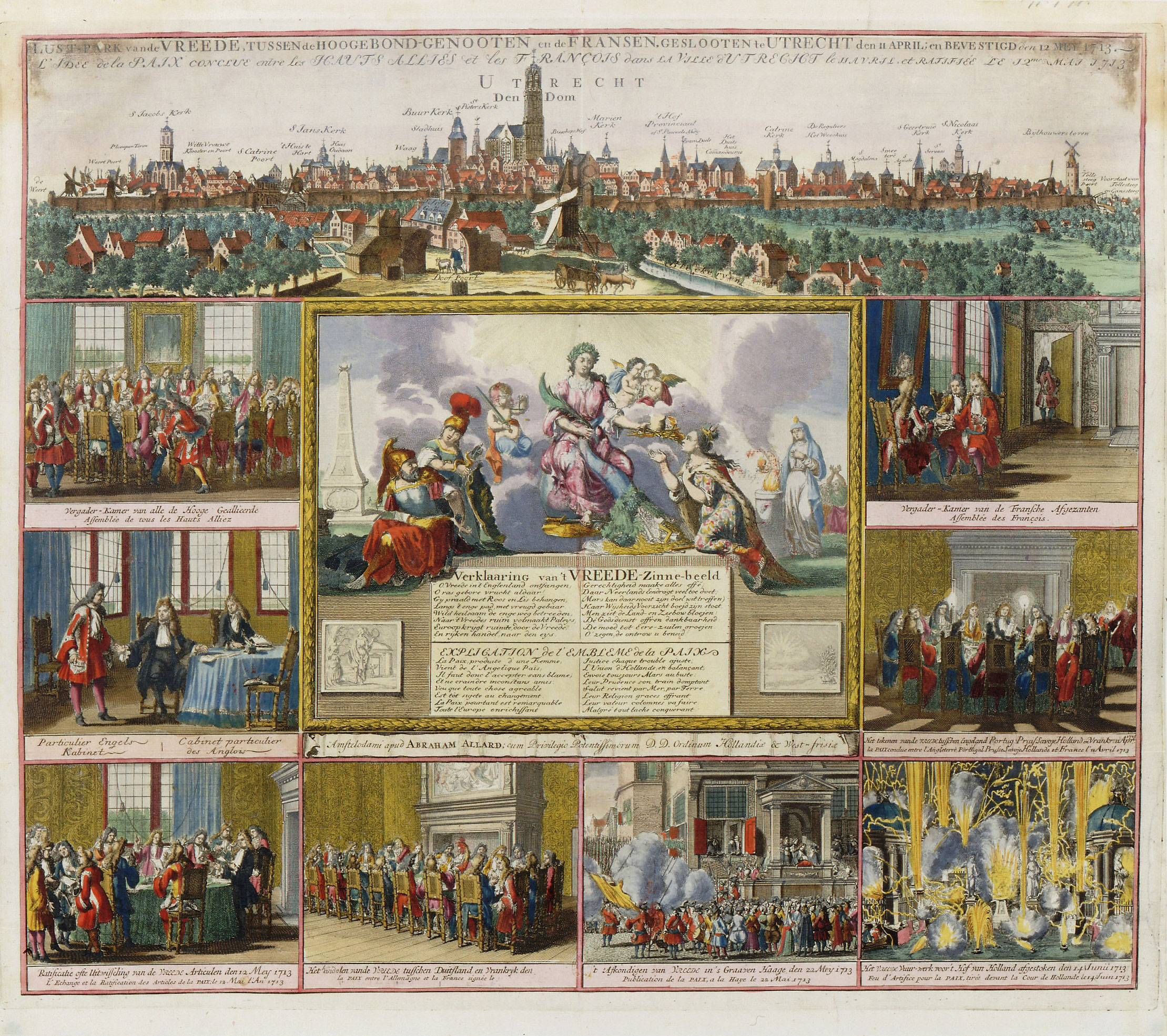 Treaty of Utrecht. 18th century colour print. Bibliothèque nationale de France